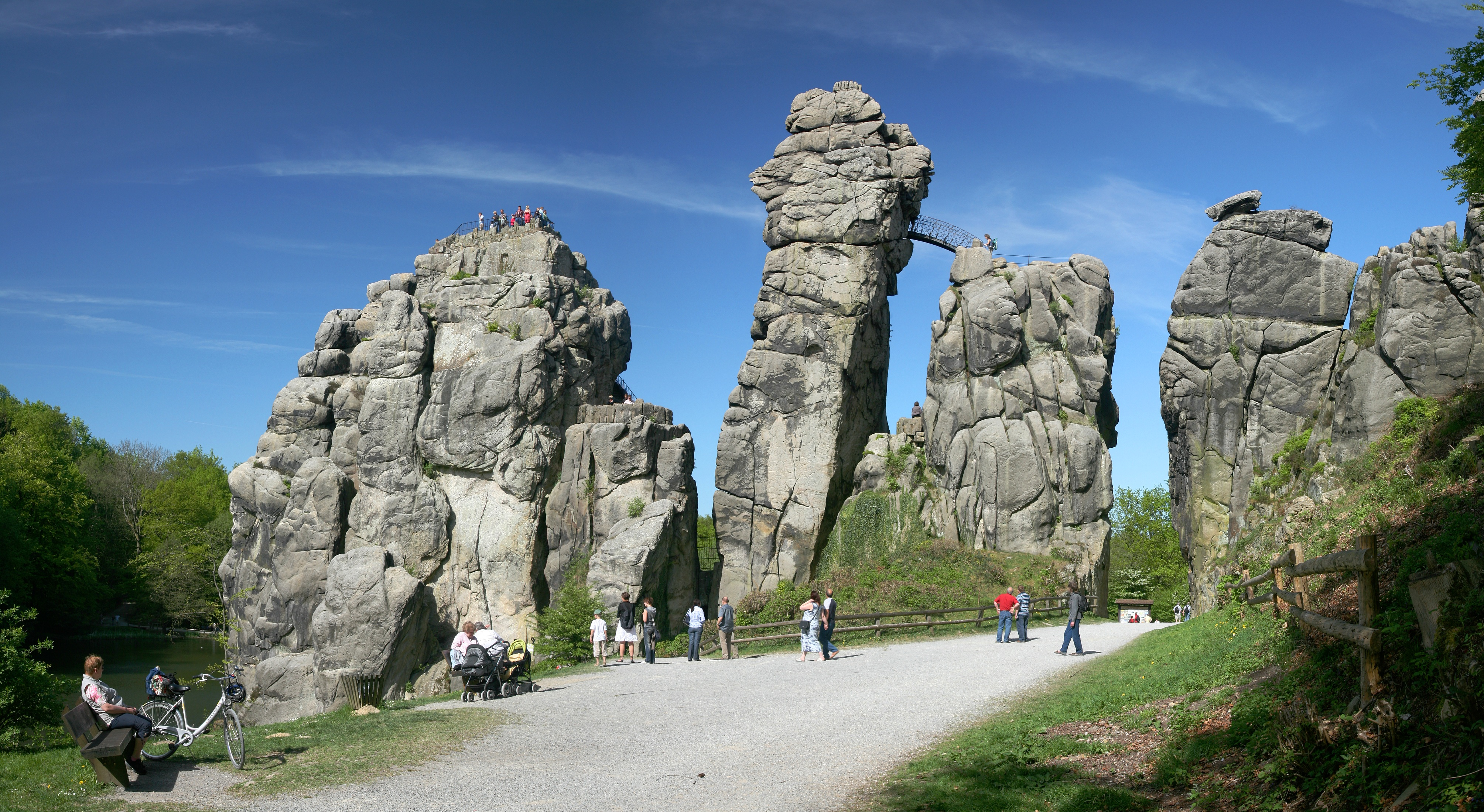 Externsteine in Teutoburg Forrest near Horn-Bad Meinberg